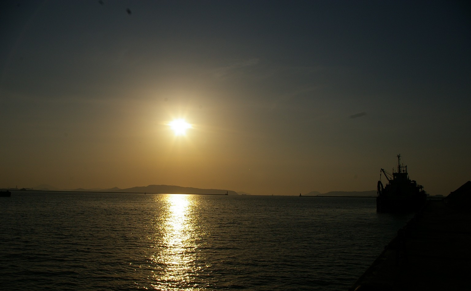 Hakata bay at dark from Higashi Hama.